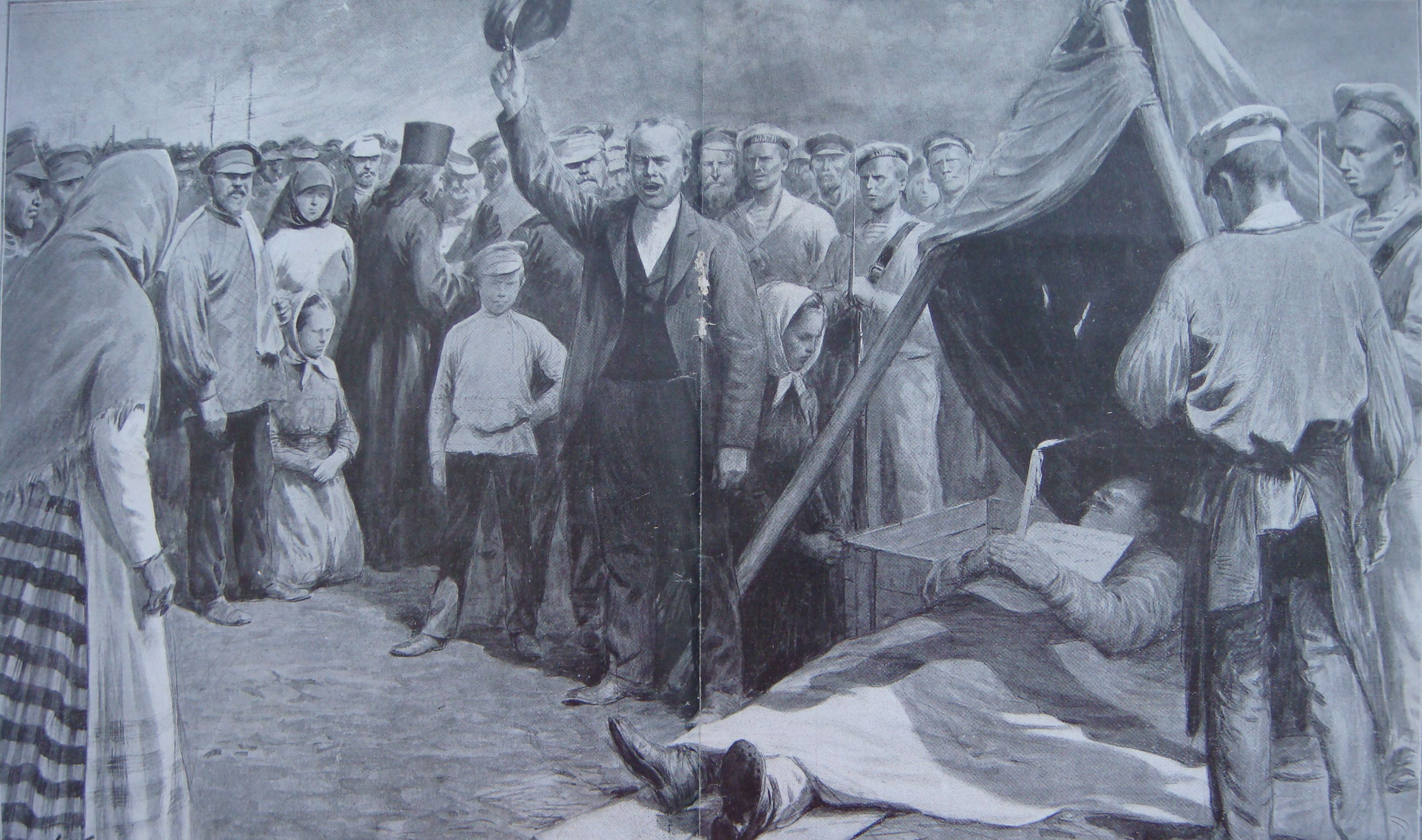 Potemkin mutiny. Odessa port. Revolutionary meeting near the corps of killed leader of mutineers petty officer Grigory Vakulenchuk. Drawing